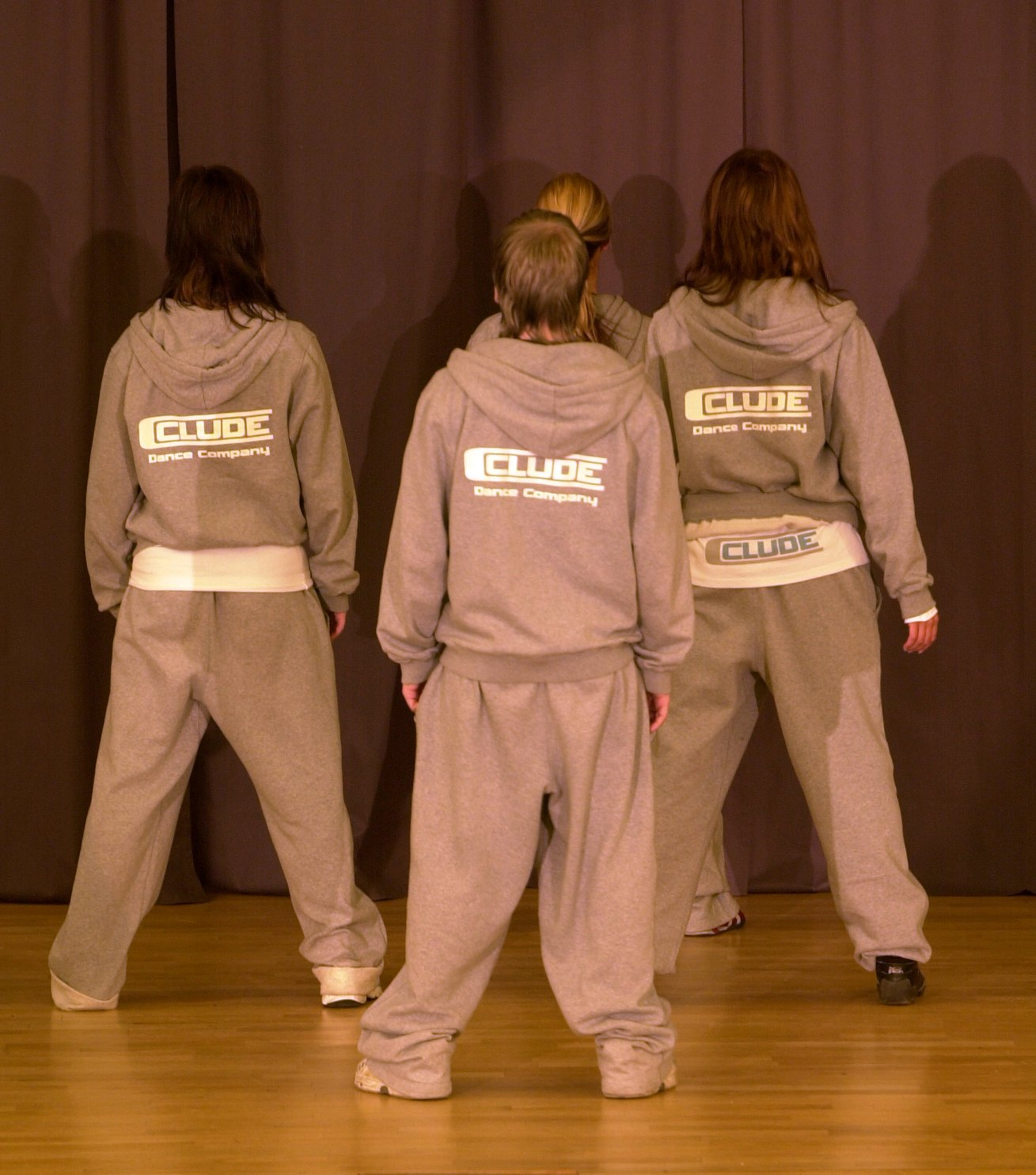 Clude Dance Company during a rehearsal in Gothenburg, Sweden.